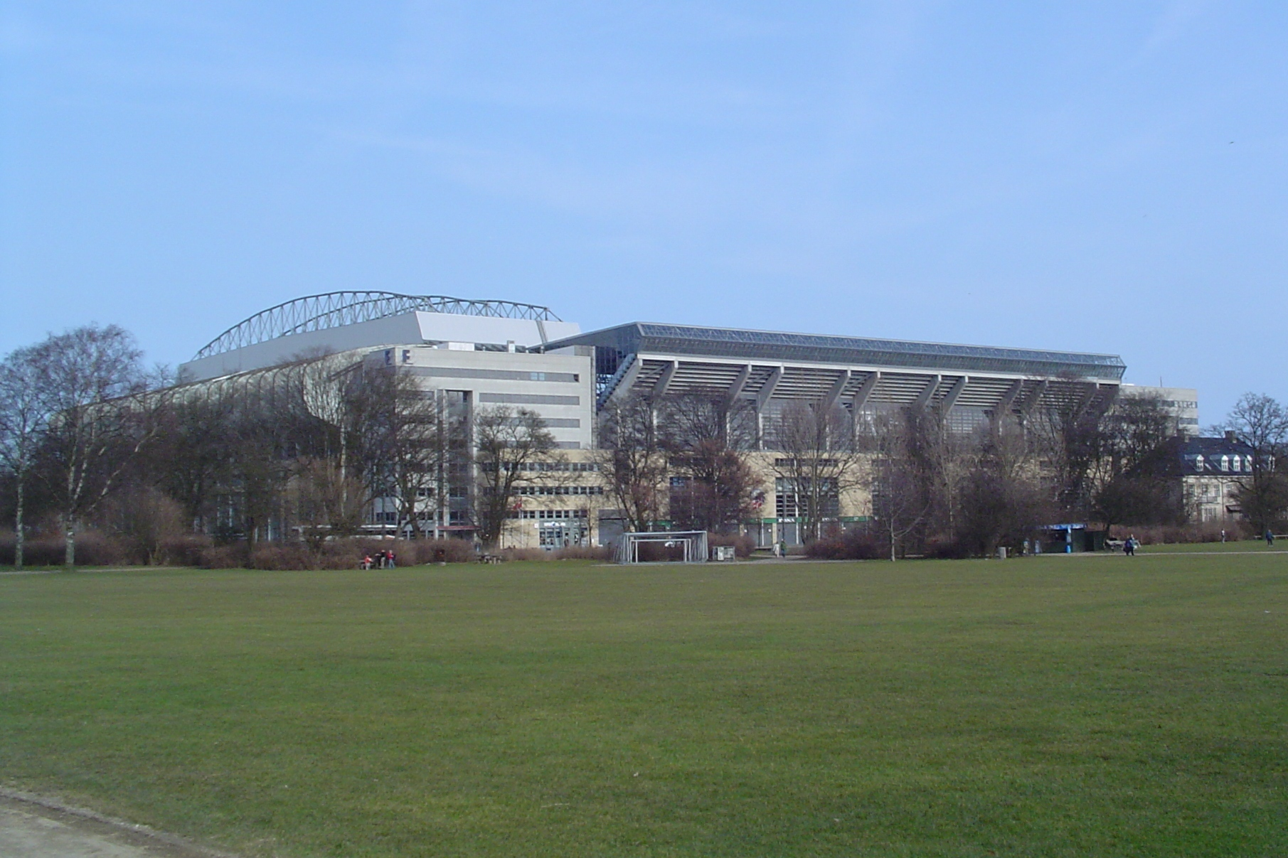 Parken, the Danish national stadium, seen from the south-west side.